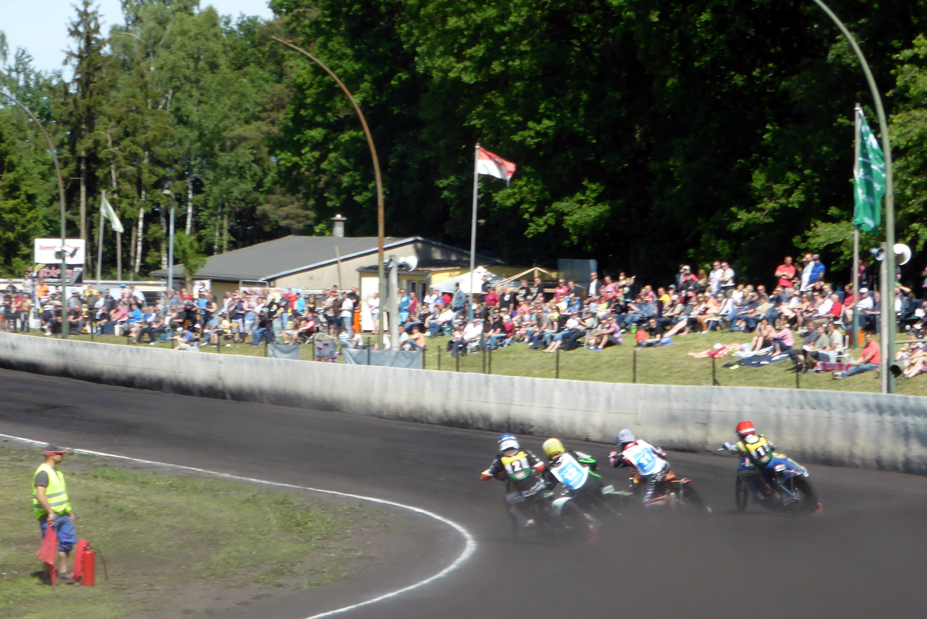 German Speedway Bundesliga. Wolfslake Falubaz Berlin vs Nordstern Stralsund in Wolkfslake.